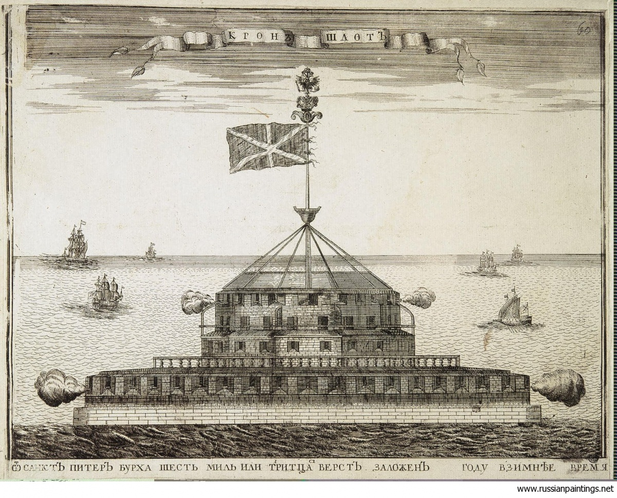 A battle between the Russian fortress "Kronshlot" and swedish warships.